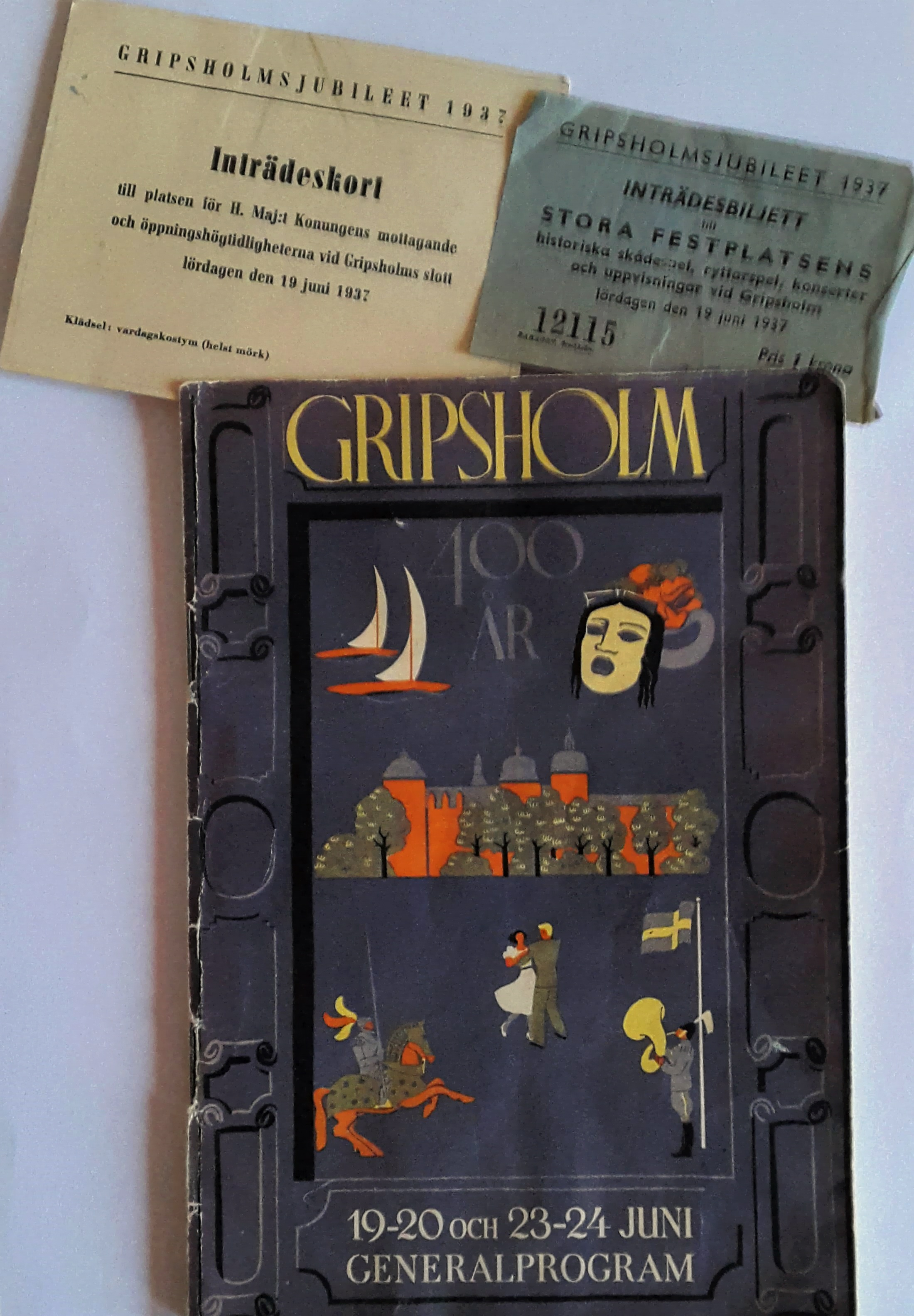 General program for the festivities at Gripsholm Jubilee June 1937